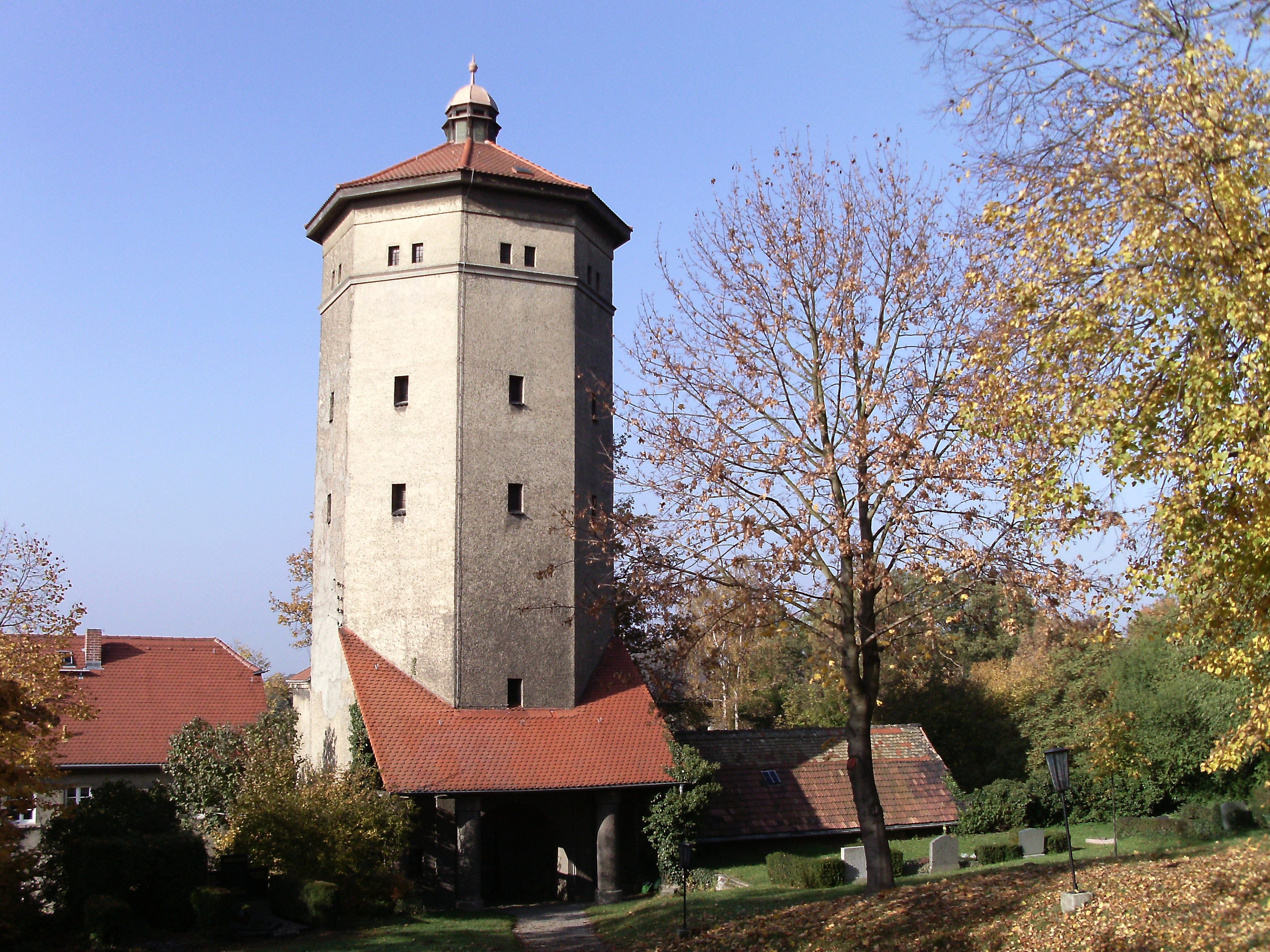 Water tower in Beucha (Brandis, Leipzig district, Saxony), in the same time gateway to the churchyard of the Church on the Hill